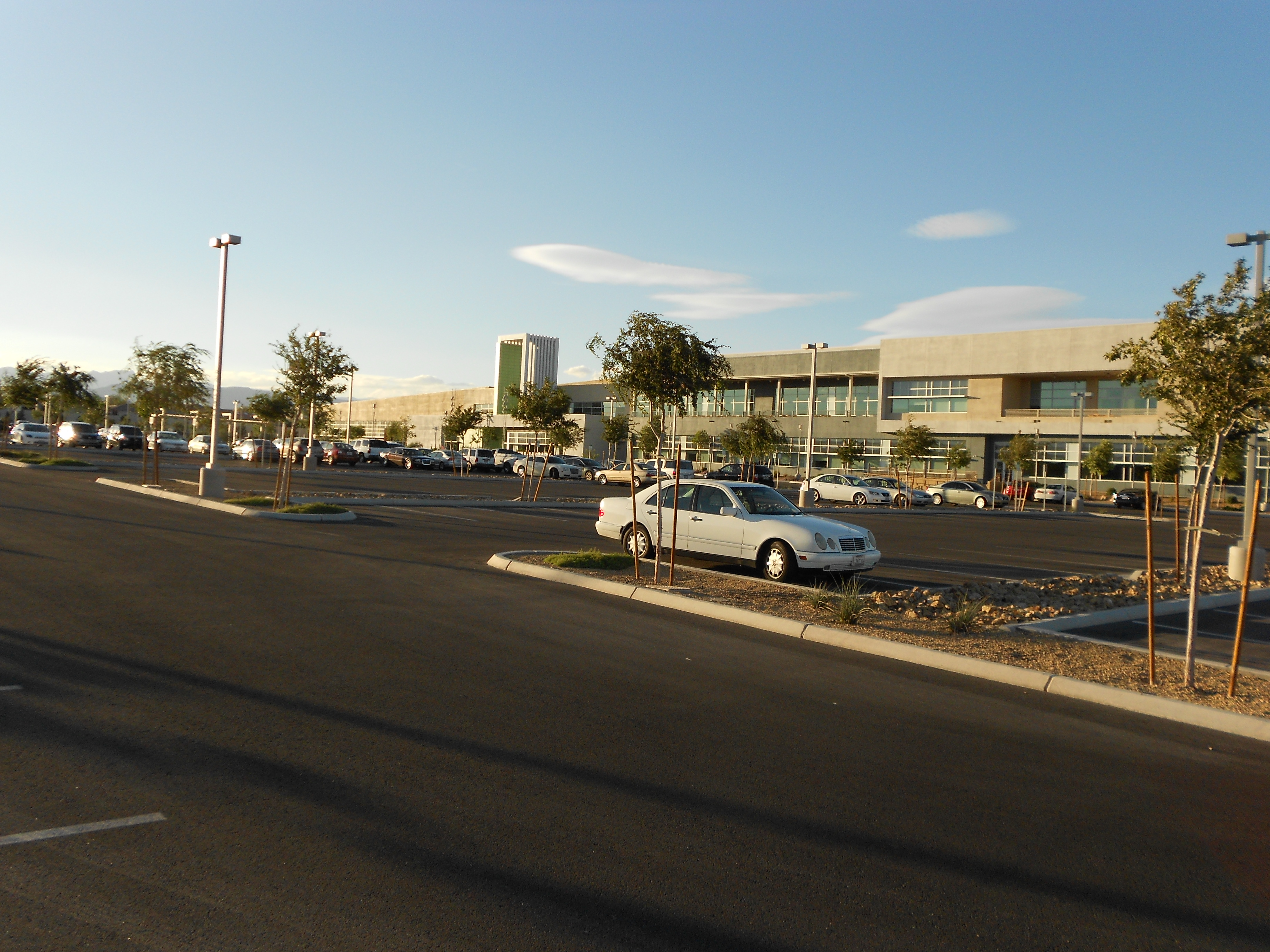 Clark County Library District Windmill Branch in Enterprise, Nevada